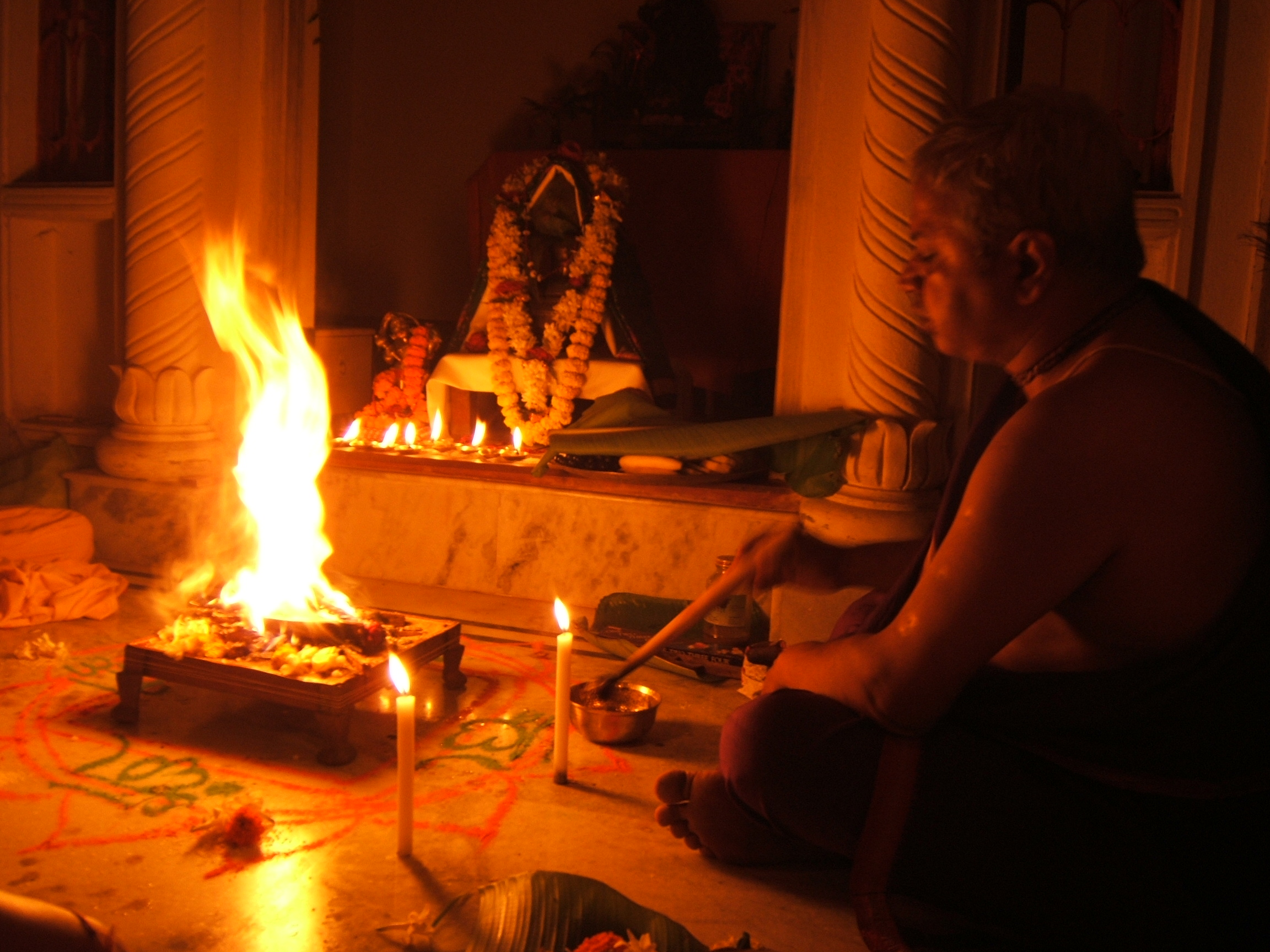 Brahmana performing fire sacrifice